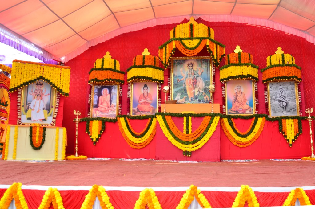 This picture shows the Datta Jayanti celebrations held in Alamner